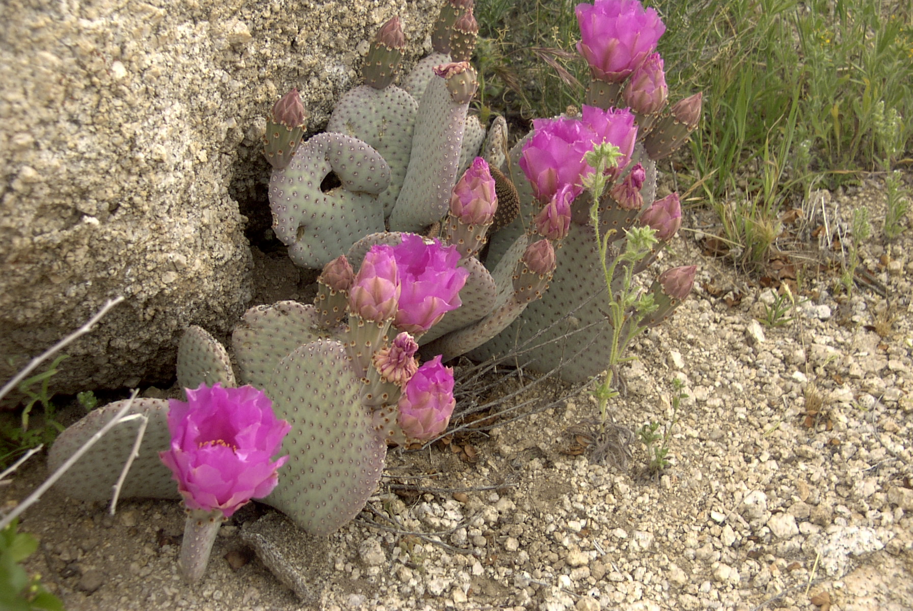 Beaver Tail Cactus Opuntia basilaris, Mojave Desert, CA, USA.